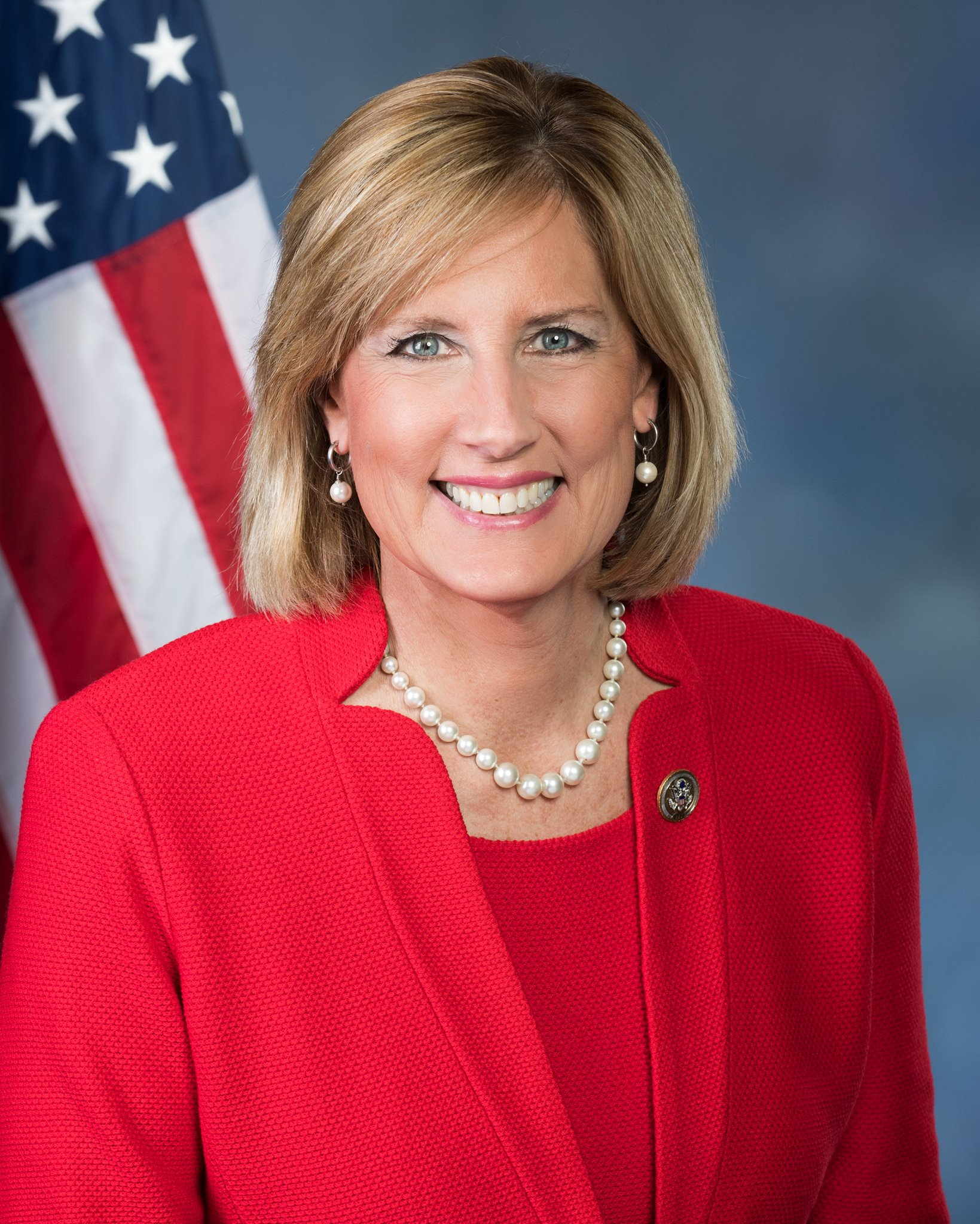 Claudia Tenney, 115th official photo